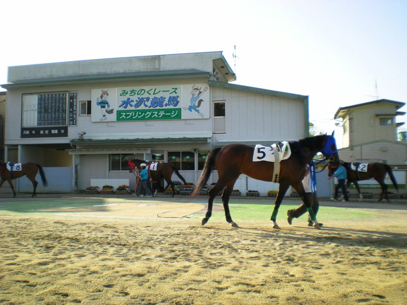 Mizusawa Racecourse